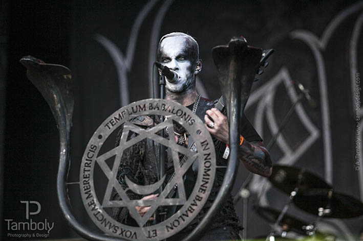 Photo from Behemoth's concert in Dessau in Germany during the Metalfest 2012